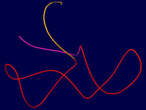 A Hammerhead Ribozyme (the red area links the RNA strand to be cleaved)